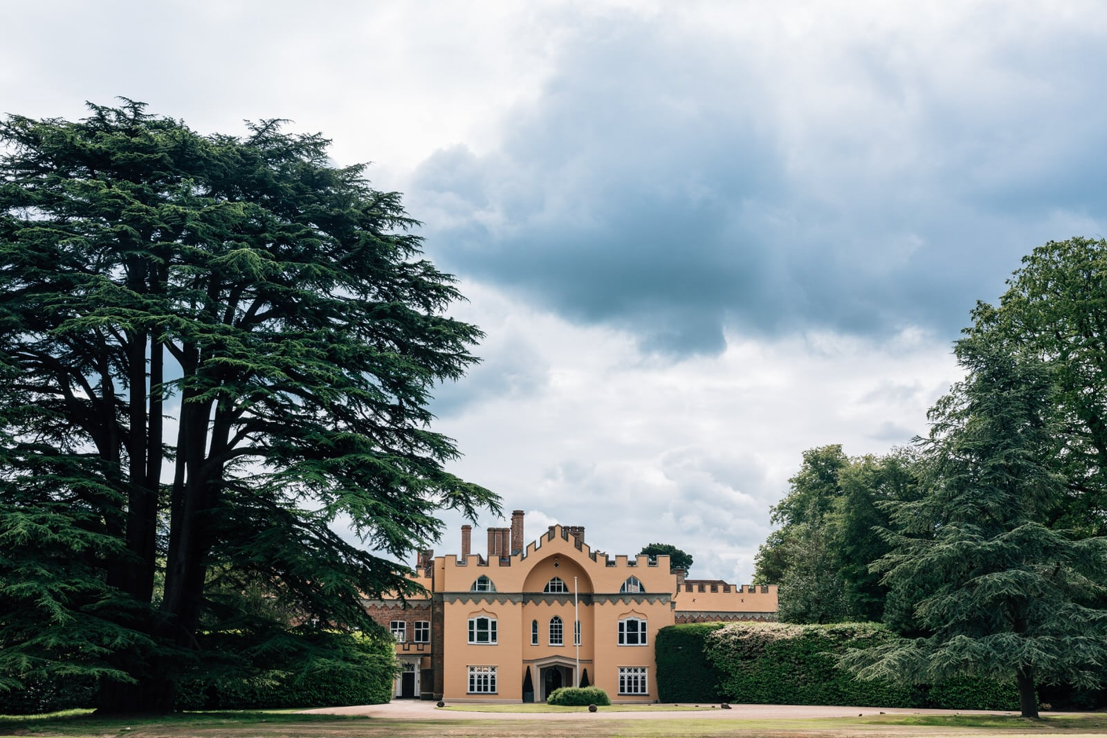 Taken from the front driveway looking at the front of Hampden House.